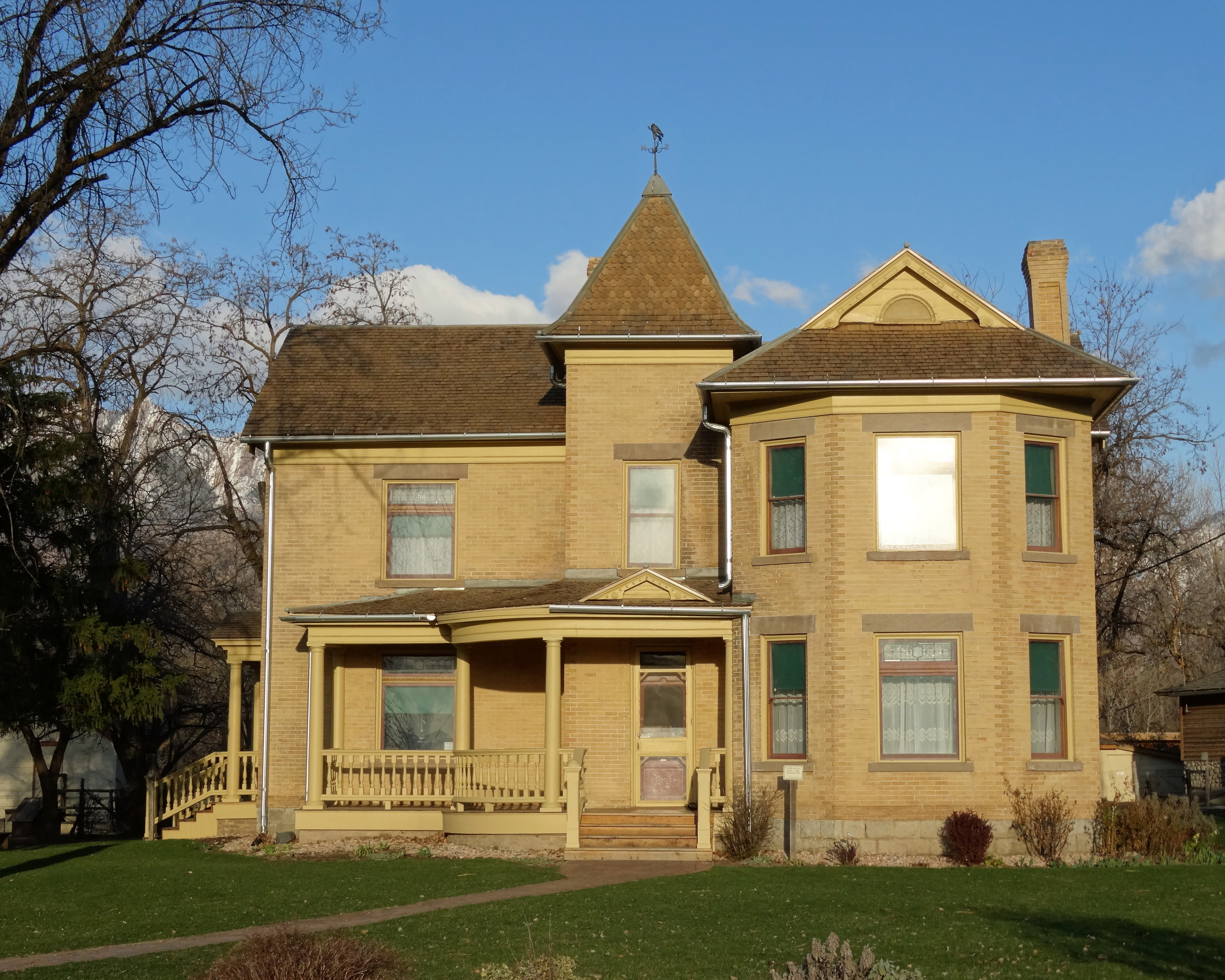 Wheeler Farm is an operating historical farm located in Murray, Utah.